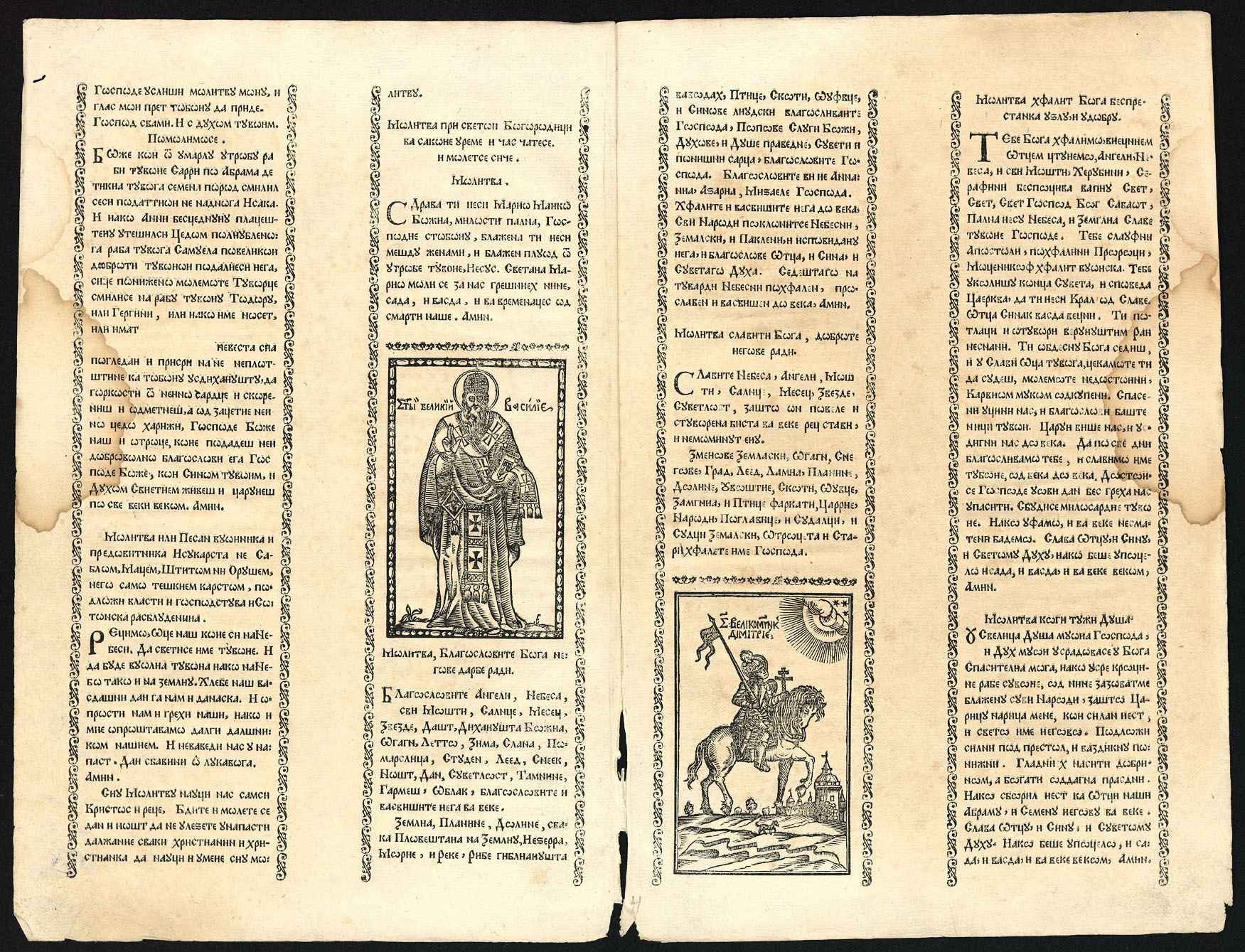 Abagar, the first Bulgarian printed book, 1651